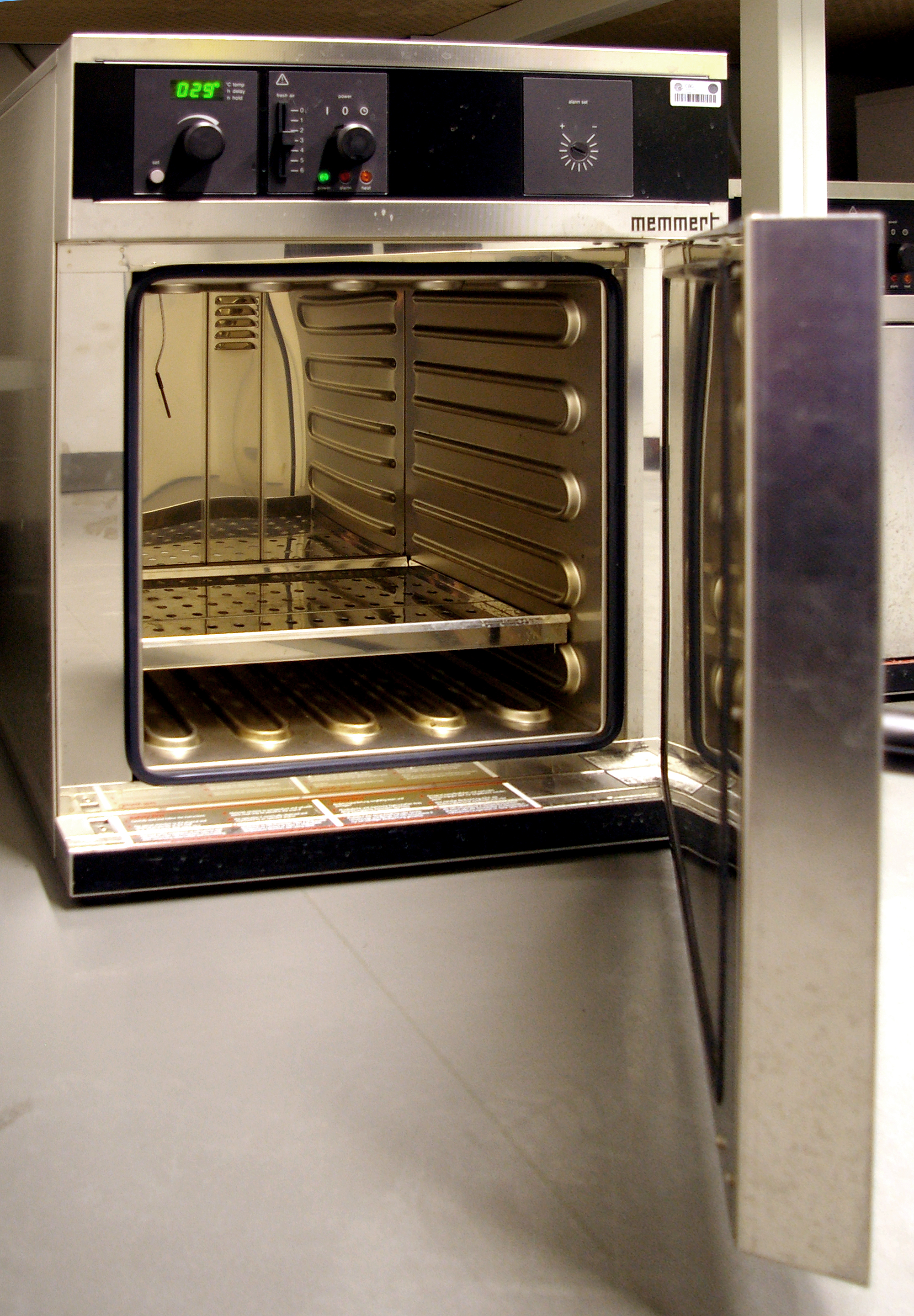 Incubator for microbiological cultures on plates, inside This photo was taken during Wikiproject LabSnap 2011 organised by Wikimedia Polska Association and hosted by Max Planck Institute for Molecular Cell Biology and Genetics in Dresden (MPI-CBG), which gave the access to its facilities. All photos taken during this wikiproject are to be found in the category LabPstryk 2011.